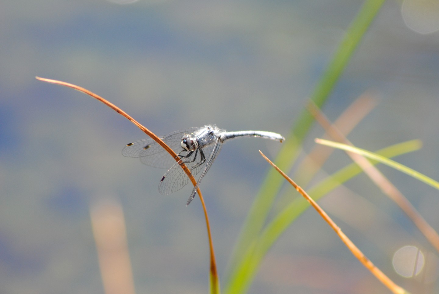 Elfin Skimmers (Nannothemis bella) were common in One Thousand Acre Heath, Penobscot County, Maine.